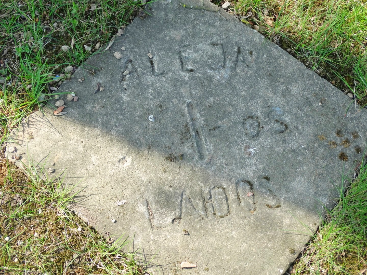 Krakės, slab inscribed by gymnasium gradates, Kėdainiai district, Lithuania